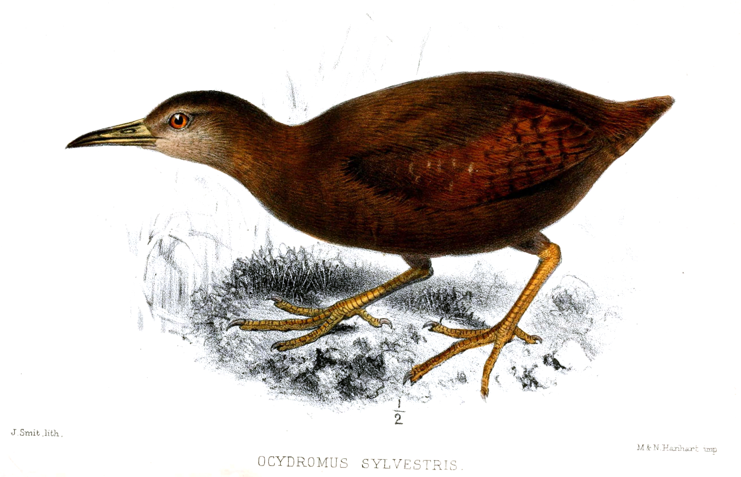 Ocydromus sylvestris = Gallirallus sylvestris